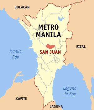 Locator map of San Juan City in Metro Manila, Philippines.